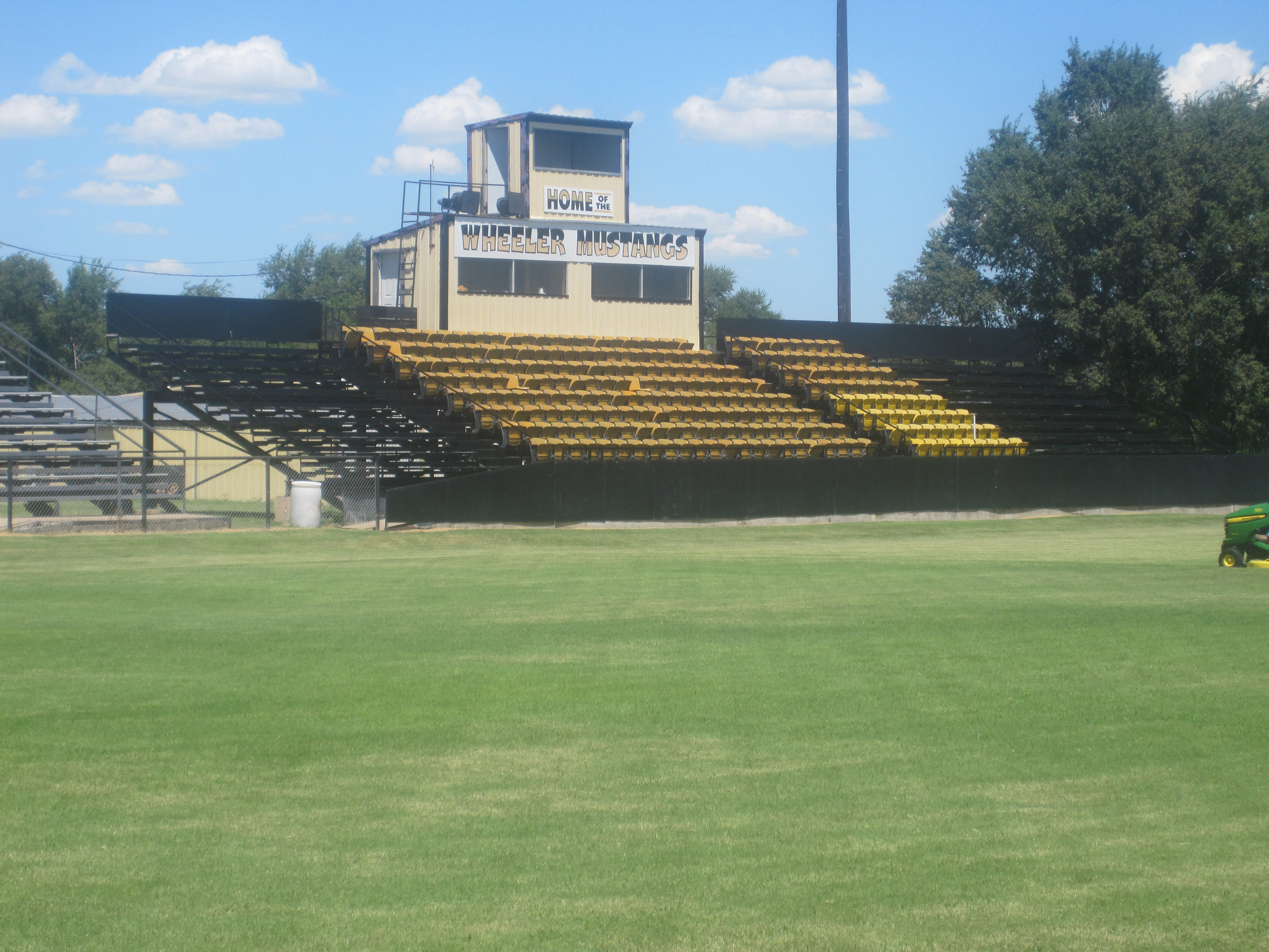 I took photo with Canon camera in Wheeler, TX.